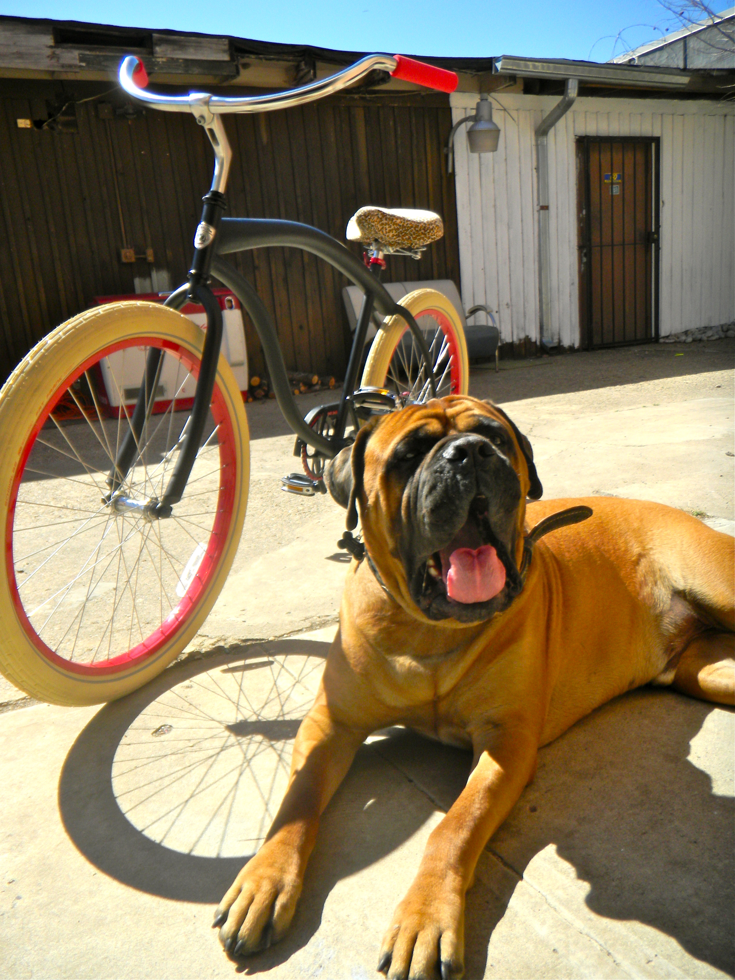 This is the Villy Customs Mascot by one of their bikes.